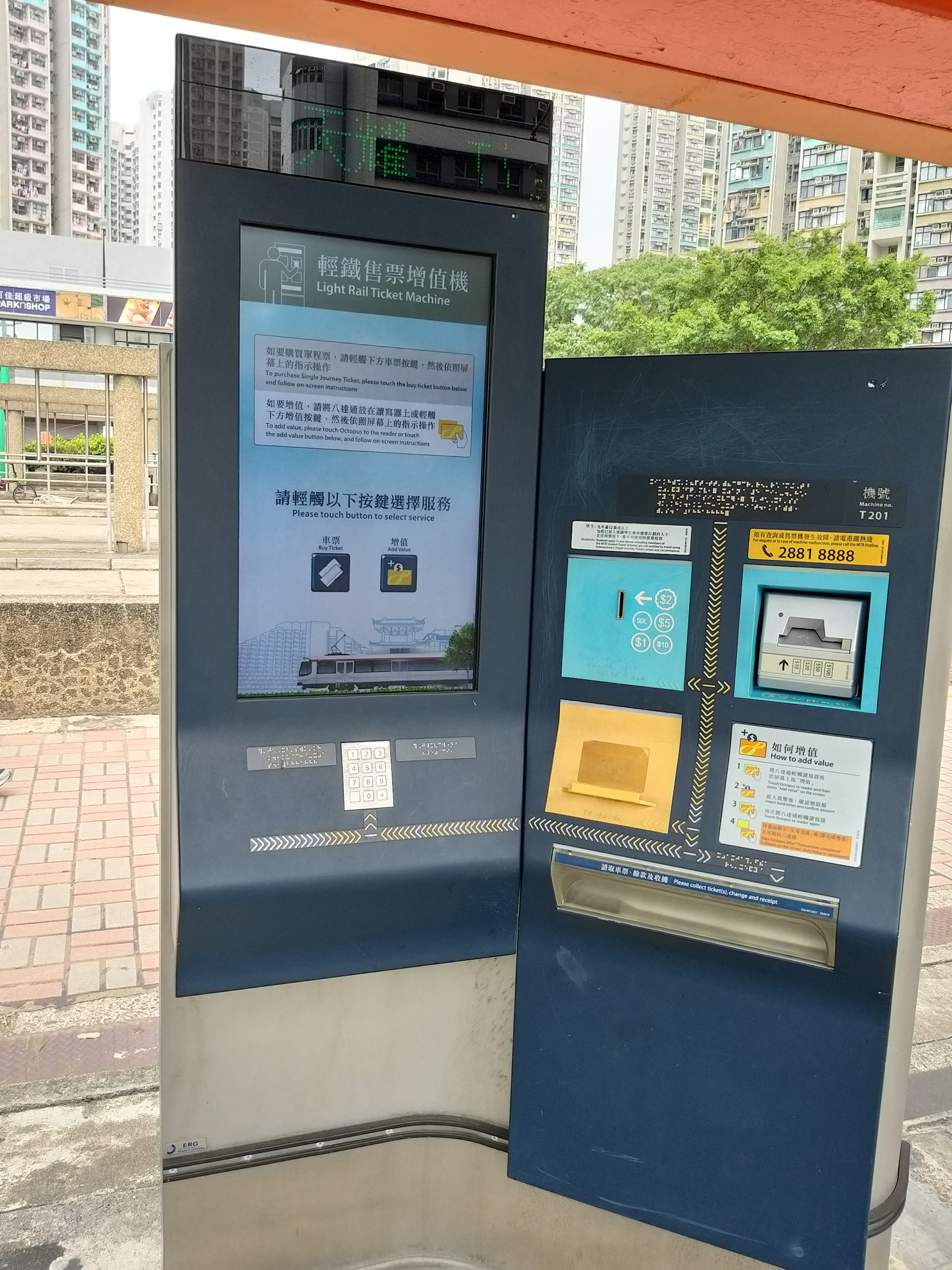 Hong Kong LRT New Ticket Machine